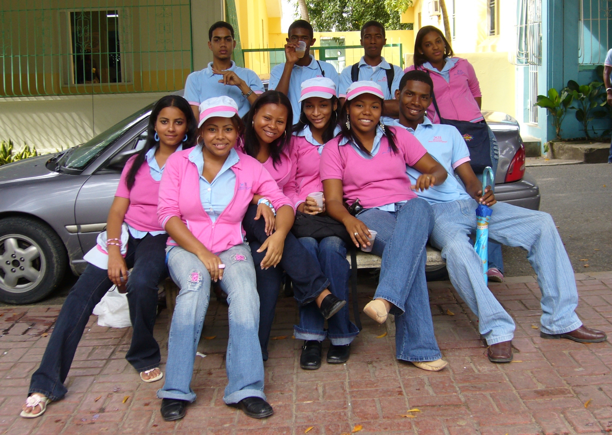 Dominican pupils